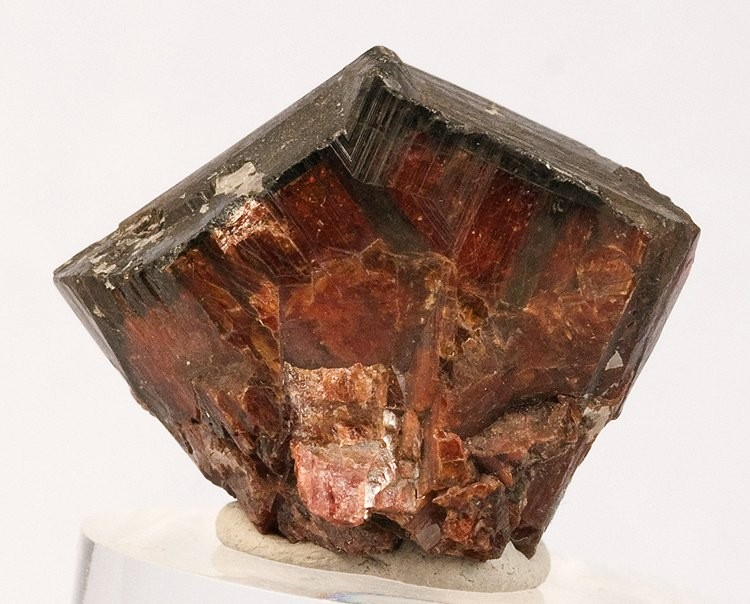 Tantalite-(Mn) Locality: Alto Ligonha pegmatites, Alto Ligonha District, Zambezia Province, Mozambique (Locality at ) Size: 2.4 x 2.0 x 1.9 cm. A sharp, lustrous, gray to reddish-brown manganotantalite twin from Alto Ligonha, Mozambique. Twins are uncommon from Alto Ligonha and this one has excellent, classic form. Very highly representative of this rare oxide species and locale. Ex. Mijer Collection.